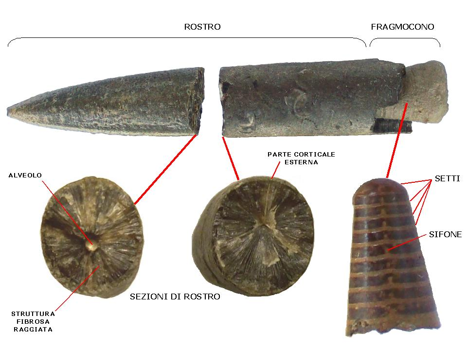 Fossil belemnite. Rostrum and phragmocone; normal sections of a rostrum (visible the internal radial-concentrical structure of calcite fibers.